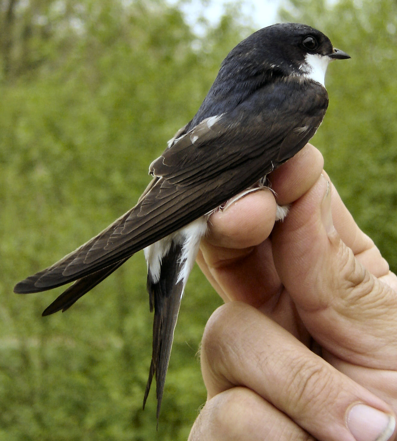 A house martin (Delichon urbicum).